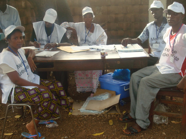 Voting station personnel counting votes